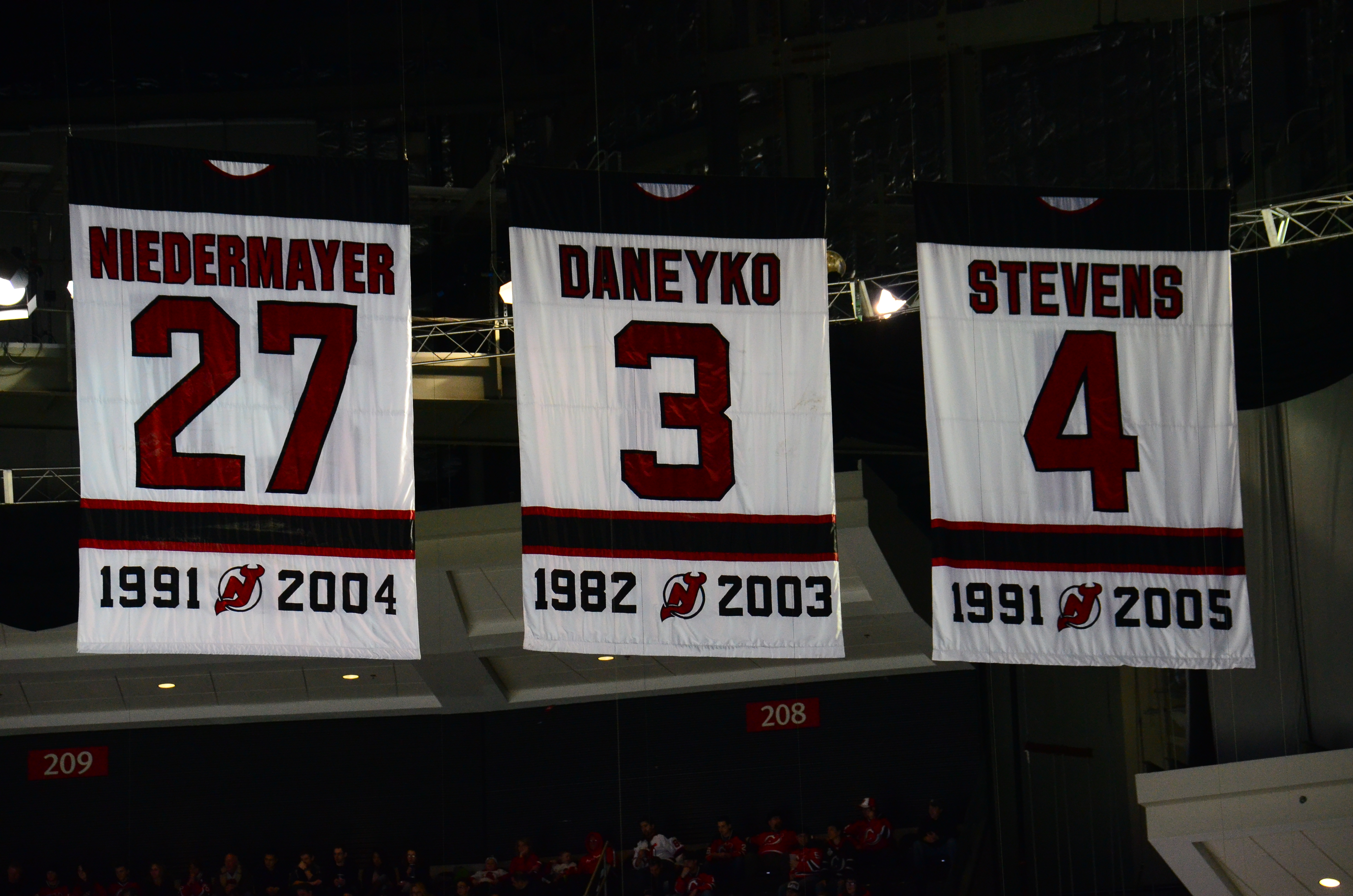 The retired numbers of the New Jersey Devils hockey team, at Prudential Center on February 18, 2013 Scott Niedermayer (#27) Ken Daneyko (#3) Scott Stevens (#4)